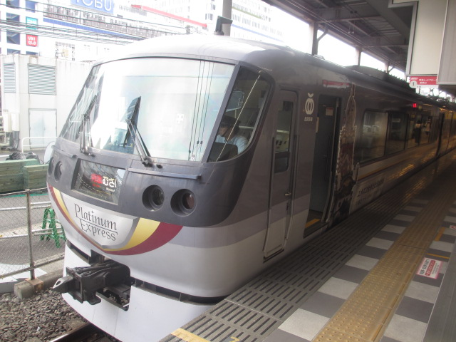 Seibu 10000 series EMU set 10104 in special "Platinum Express" (Kawagoe Version) vinyl wrapping livery at Ikebukuro Station